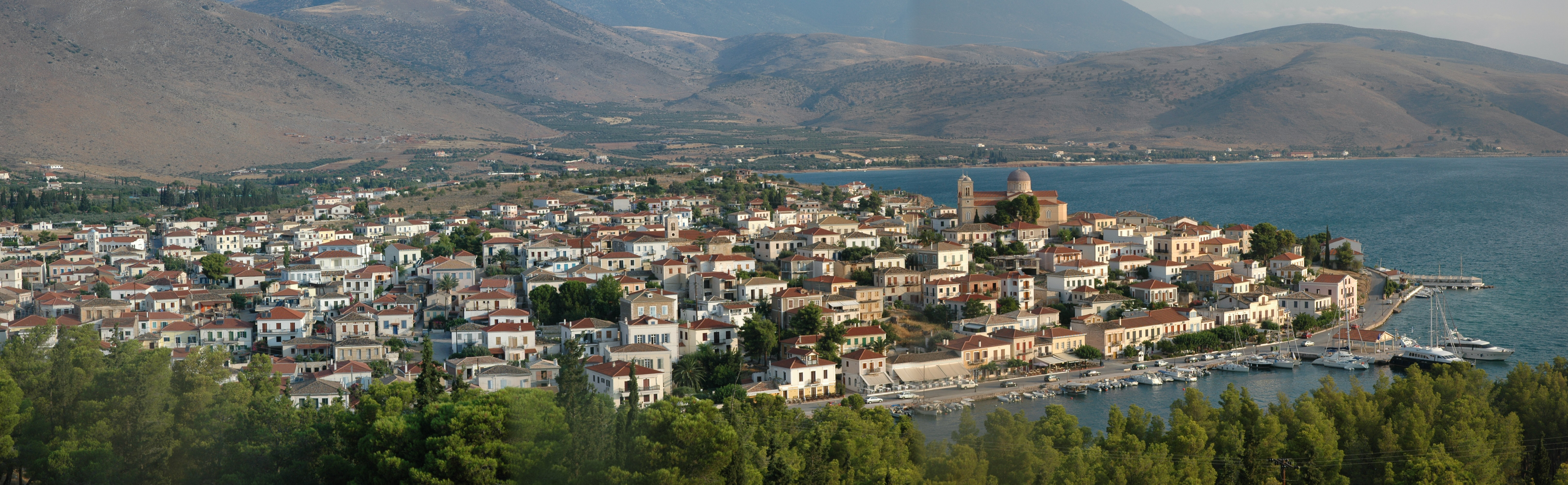 Galaxidi with St. Stephen's Church and Paralia